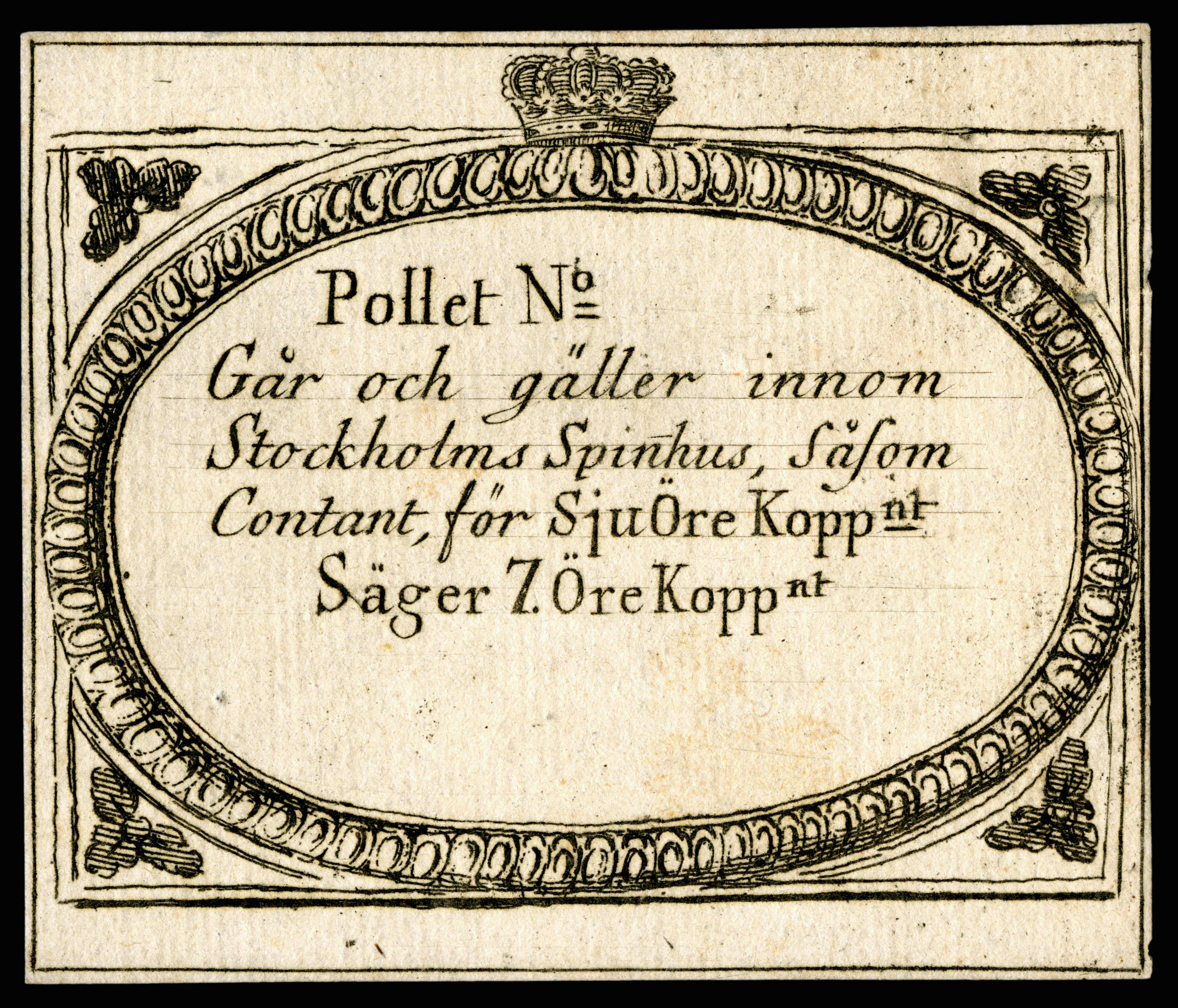 Stockholm Spinnhaus prison money, 7 Ore copper (c.1800)